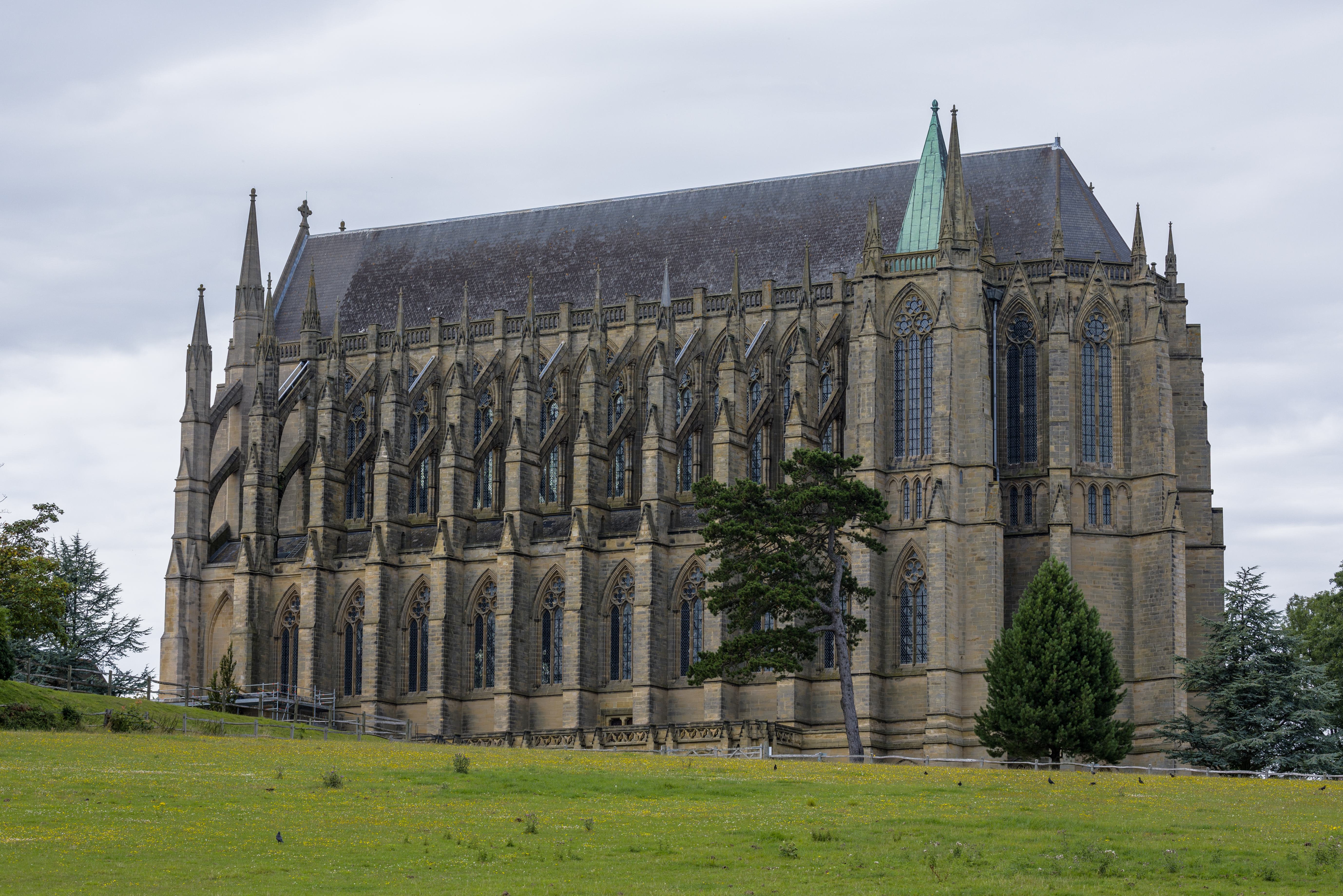 The exterior of Lancing College Chapel in West Sussex, England.